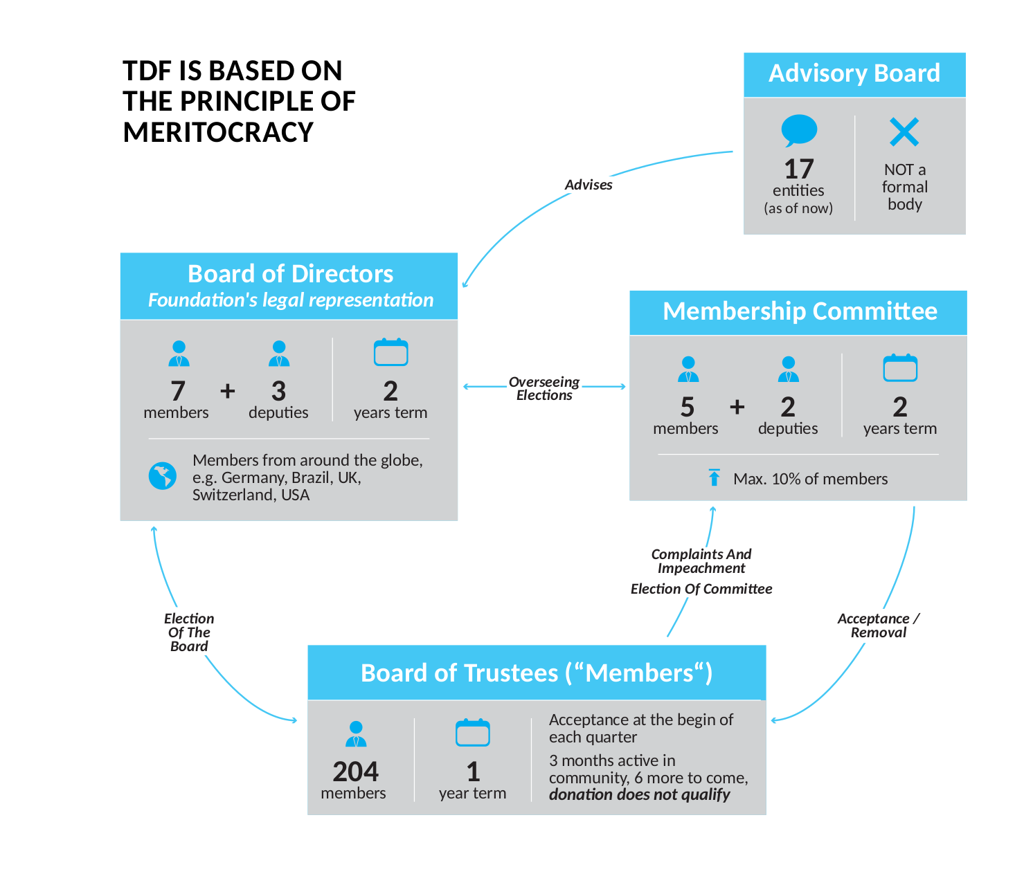 Organizational diagram of The Document Foundation